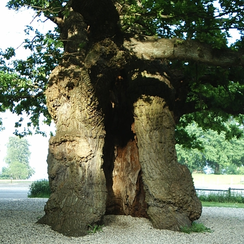 Skovfogedegen, old hollow oak in Klampenborg, north of Copenhagen, Denmark)